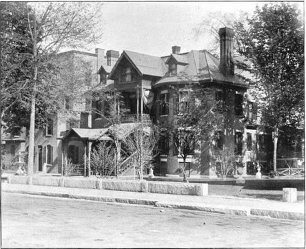 (Description under the image) Upon the ample plot extending from School to Capitol streets stands the commodious residence of Mrs. Nathaniel White, surrounded with well arranged lawns. This house was erected from plans furnished by Edward Dow, and has long been the residence of the White family, whose name is written in the record of almost every benevolent institution in the state. Nor is it less prominent in business circles, for the gigantic work accomplished by Nathaniel White in developing the means of transportation in New England cannot be forgotten. His widespread benevolence has not been allowed to lapse by reason of his death, and his widow, who now occupies this residence, is famed throughout the entire state for the breadth and amount of her benefactions.